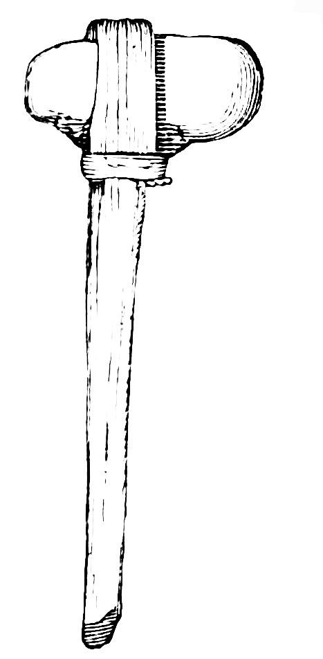 Aboriginal stone hatchet